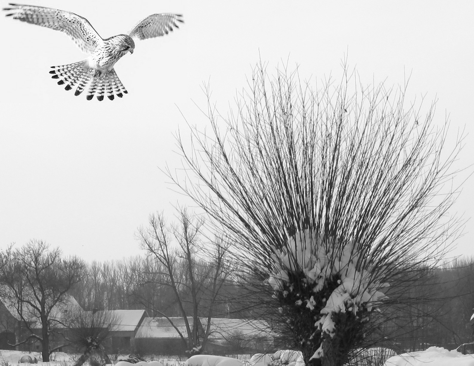 Composition representing the Park official logo